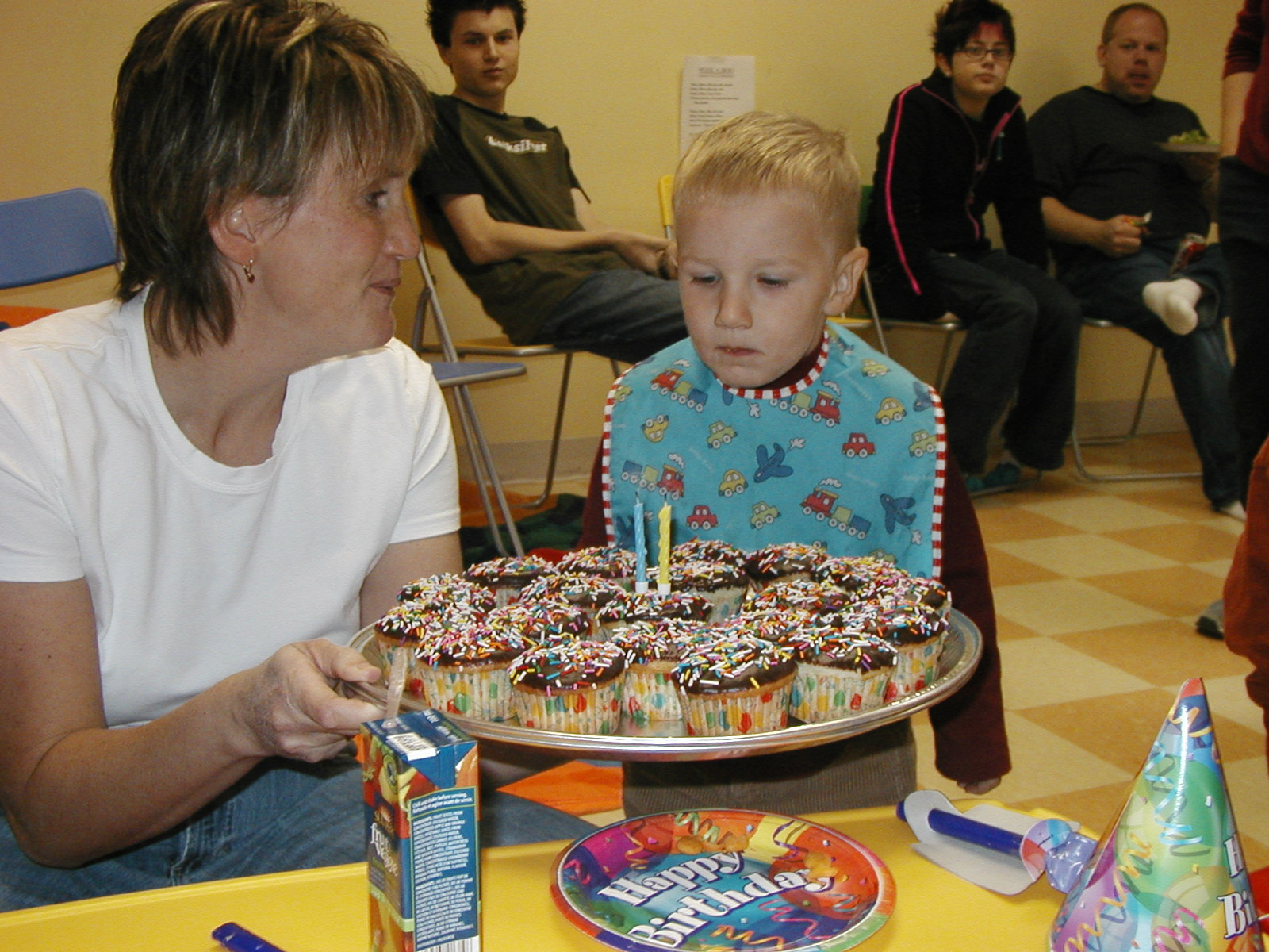 At Evan's second birthday party (Gymboree)Evan picks his cupcake